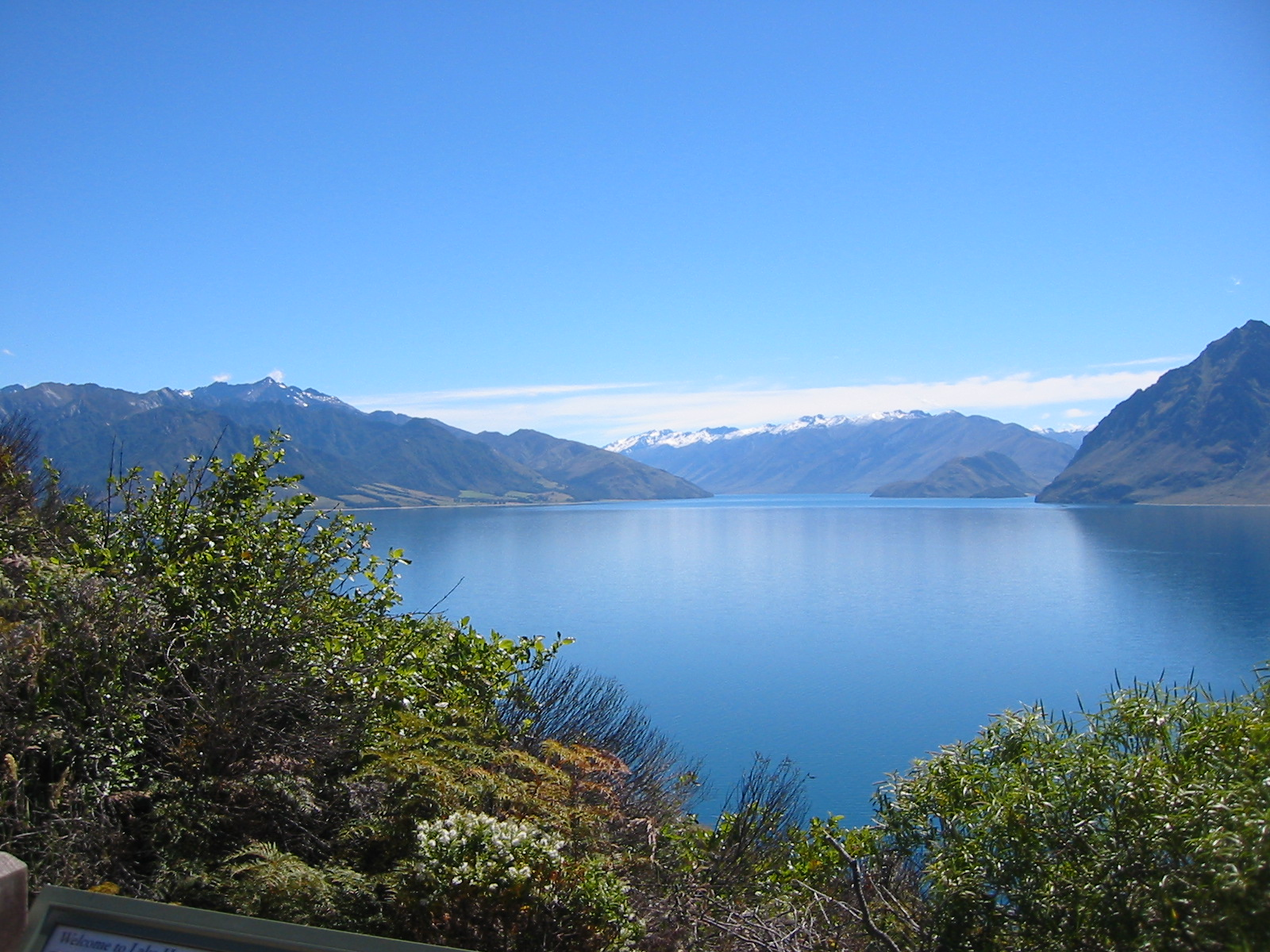 Description: Lake Hawea, New Zealand Date: 2003-12-30 Photographer: Tobias Thierer, planet-yogi.de